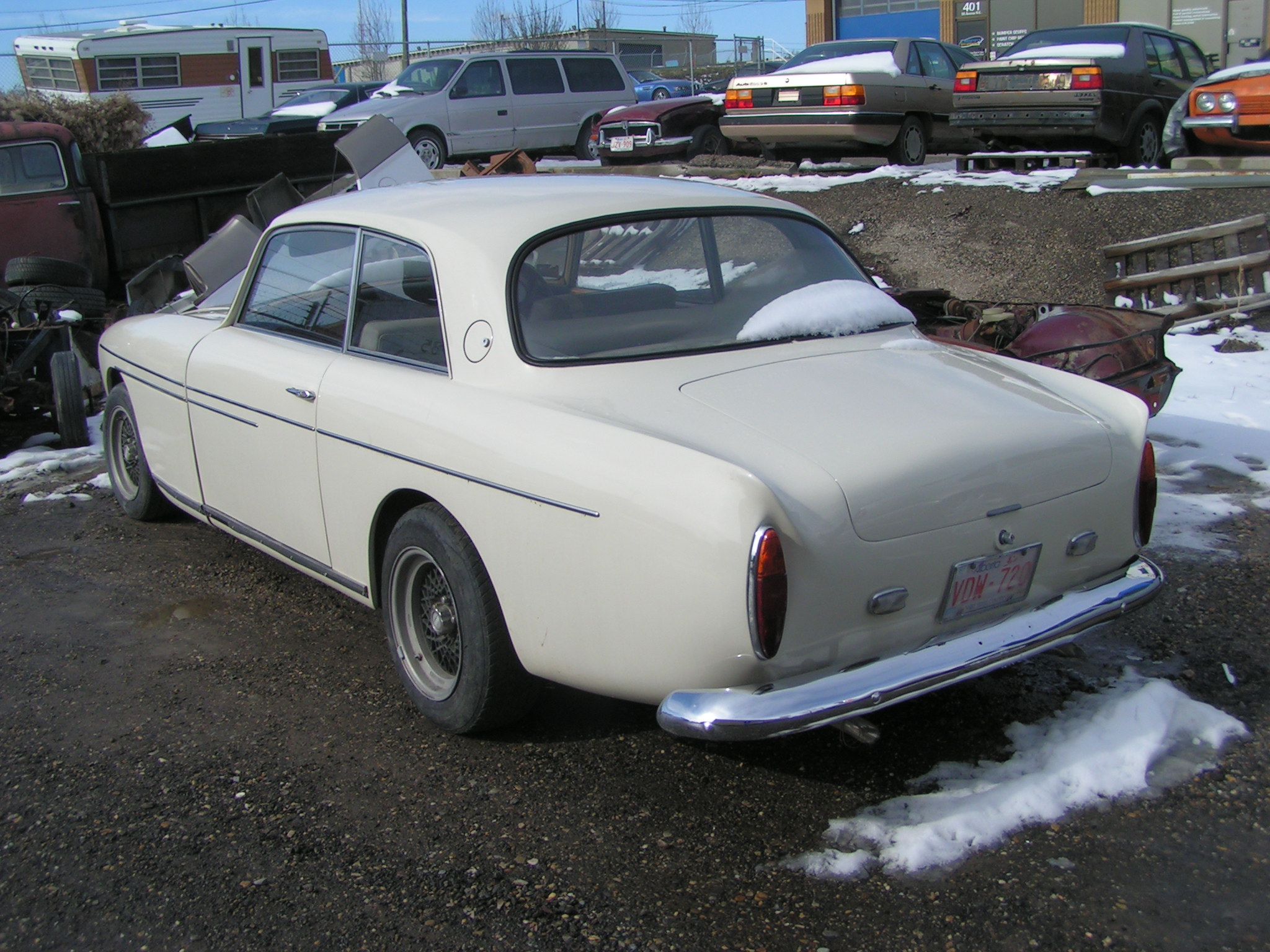 Part of the local club's garage tour. This Bristol had expired plates was possibly in at a local British car repair shop for some body repairs.